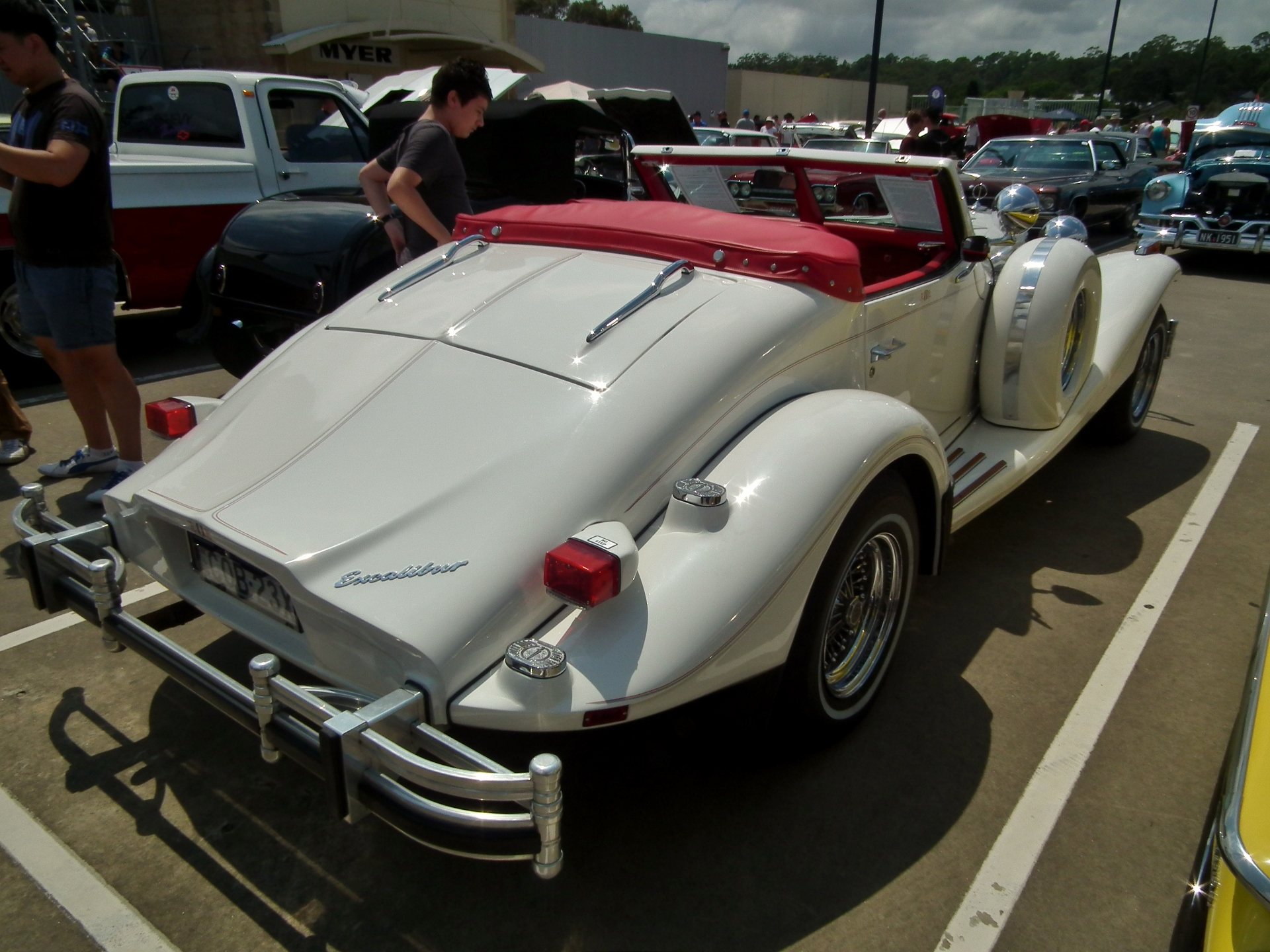 1982 Excalibur Series IV Lipstick Edition roadster. Taken at the 2014 New South Wales All American Day, held at Castle Towers Shopping Centre, Castle Hill, Sydney.